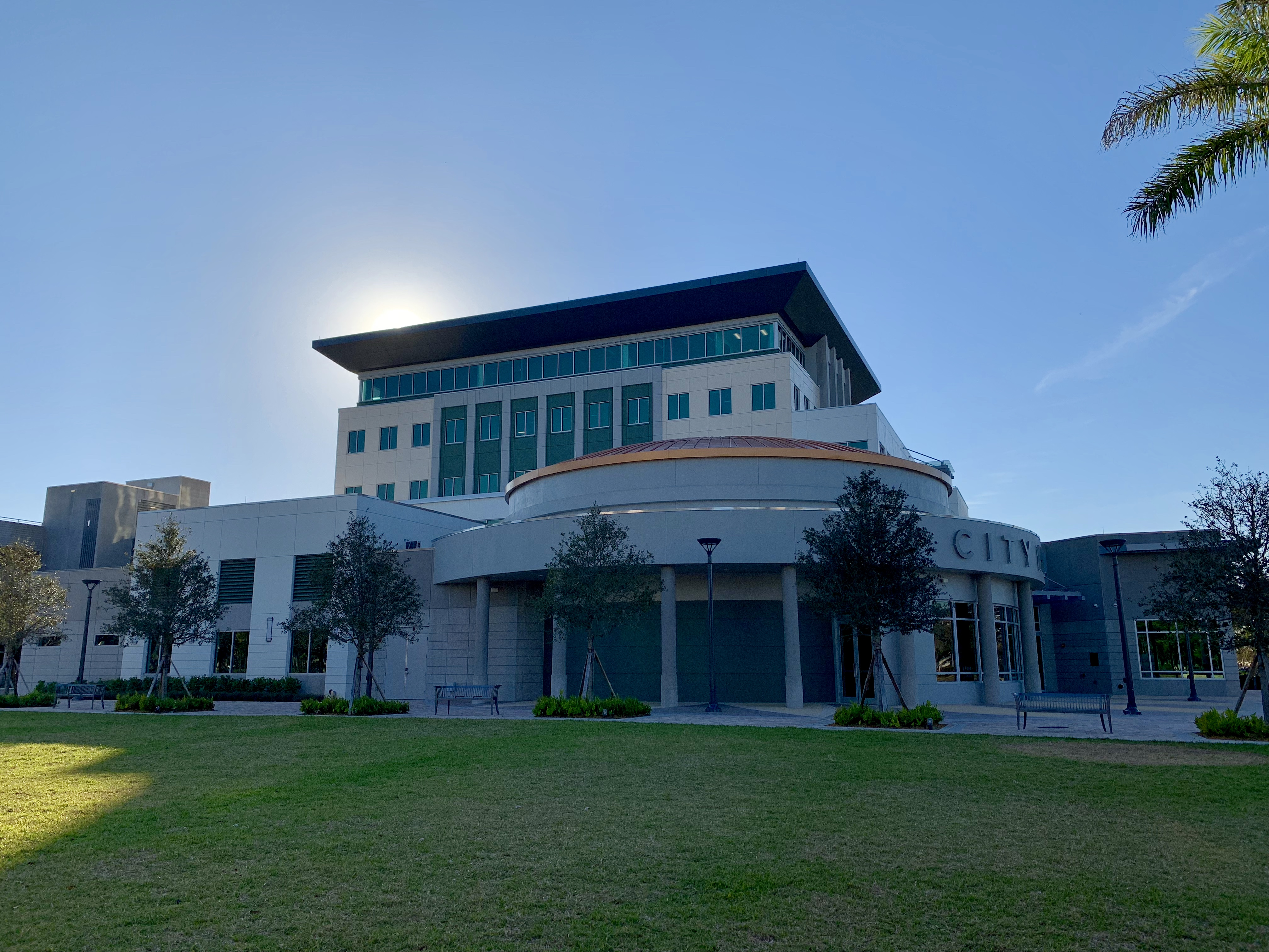 City Hall of Coral Springs, Florida in January 2019.